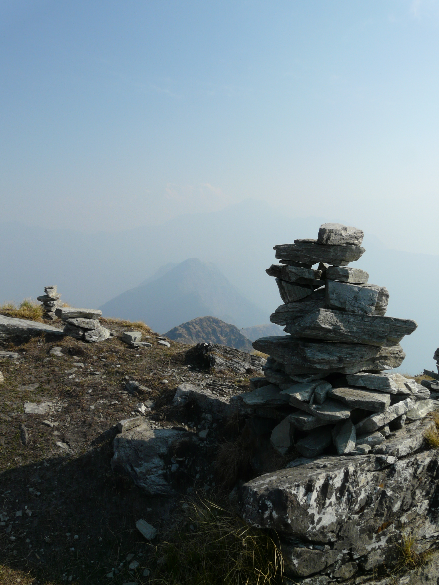 Cairns on Chandrashila Peak, Tungnath, Uttarakhand.